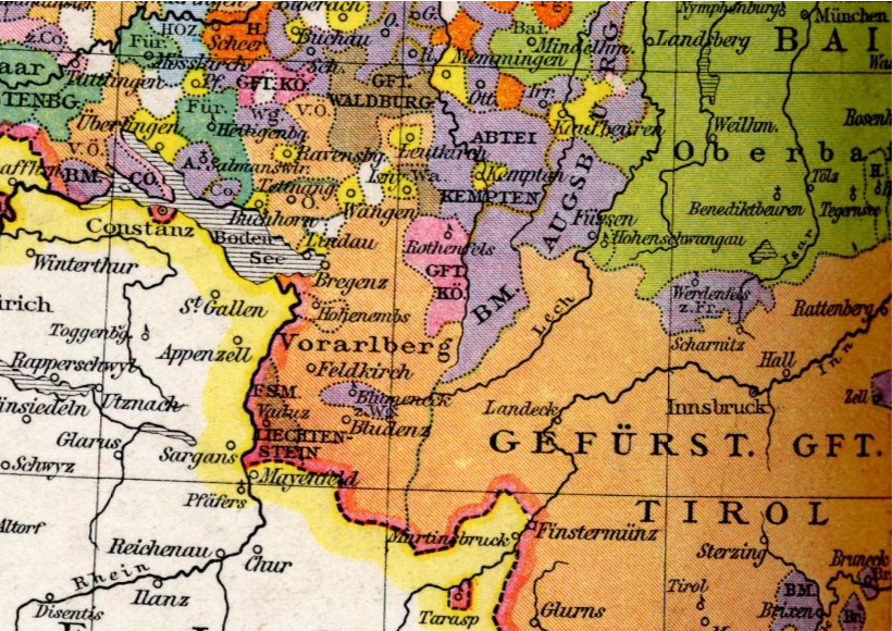 Location map for the Freiherrschaft of Königsegg